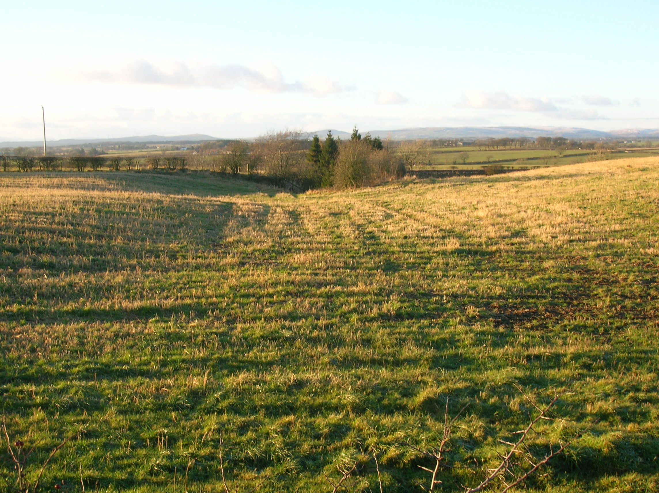 The old site of the outflow of the Garrier Burn from Buiston Loch, Kilmaurs, East Ayrshire, Scotland.